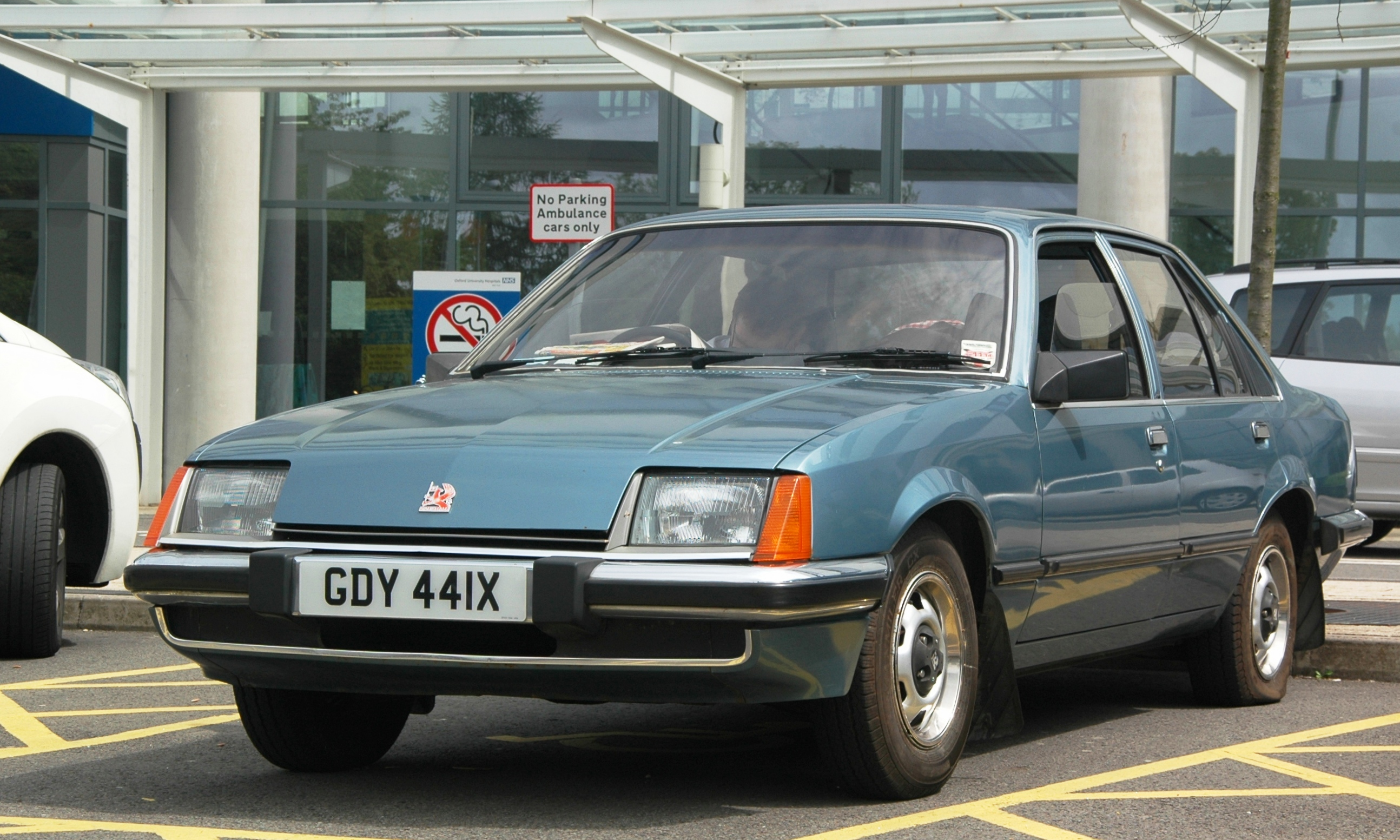 Vauxhall Carlton Mk 1 registered April 1982 1979cc (petrol)